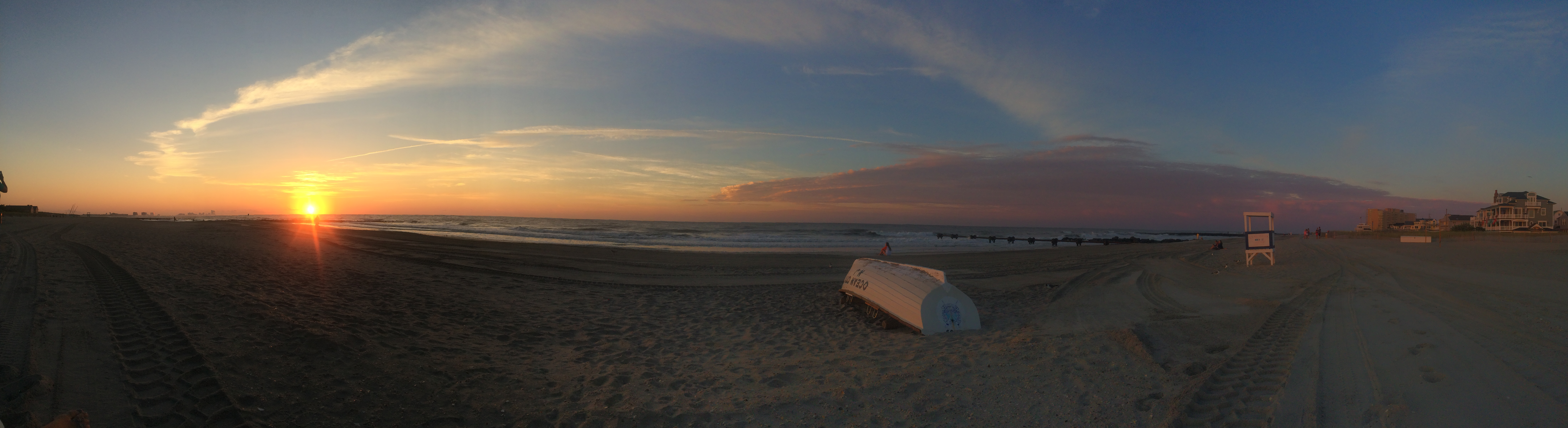 Panorama at North St. Beach, OCNJ